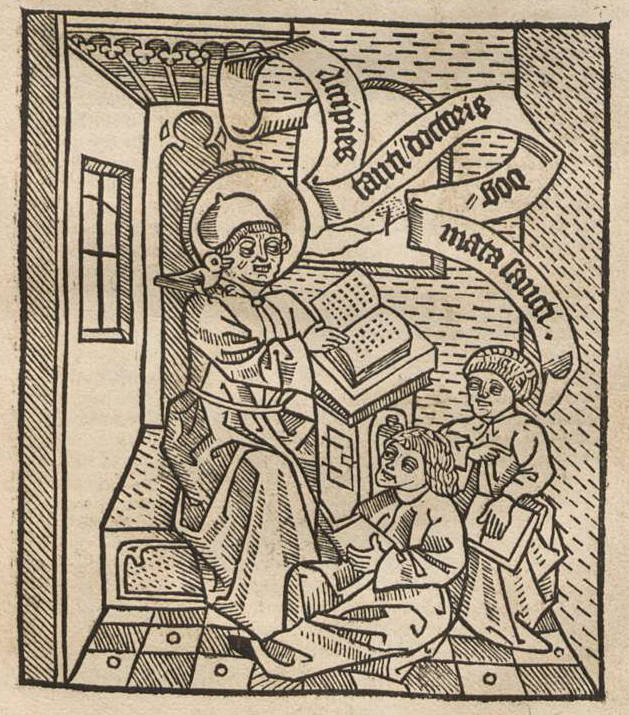 Wood-cut from Copulata tractatuum Petri Hispani et parvorum logicalium etiam Syncategorematum, cum textu, secundum doctrinam Thomae Aquinatis. Cologne: Heinrich Quentell, 7 April 1490.